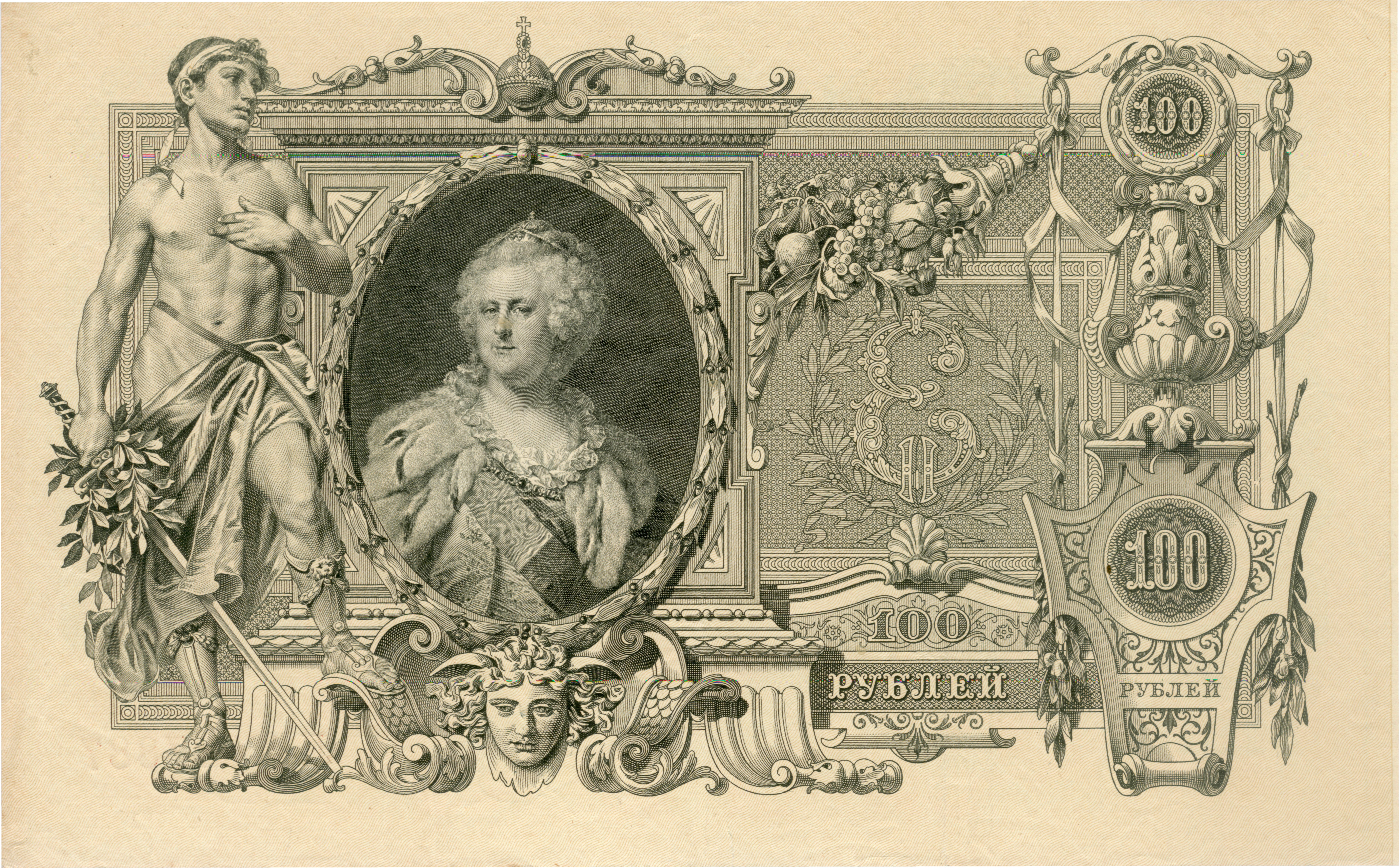 Russian Empire banknote 100 rubles. Version of 1910 year. FrontI scanned this image